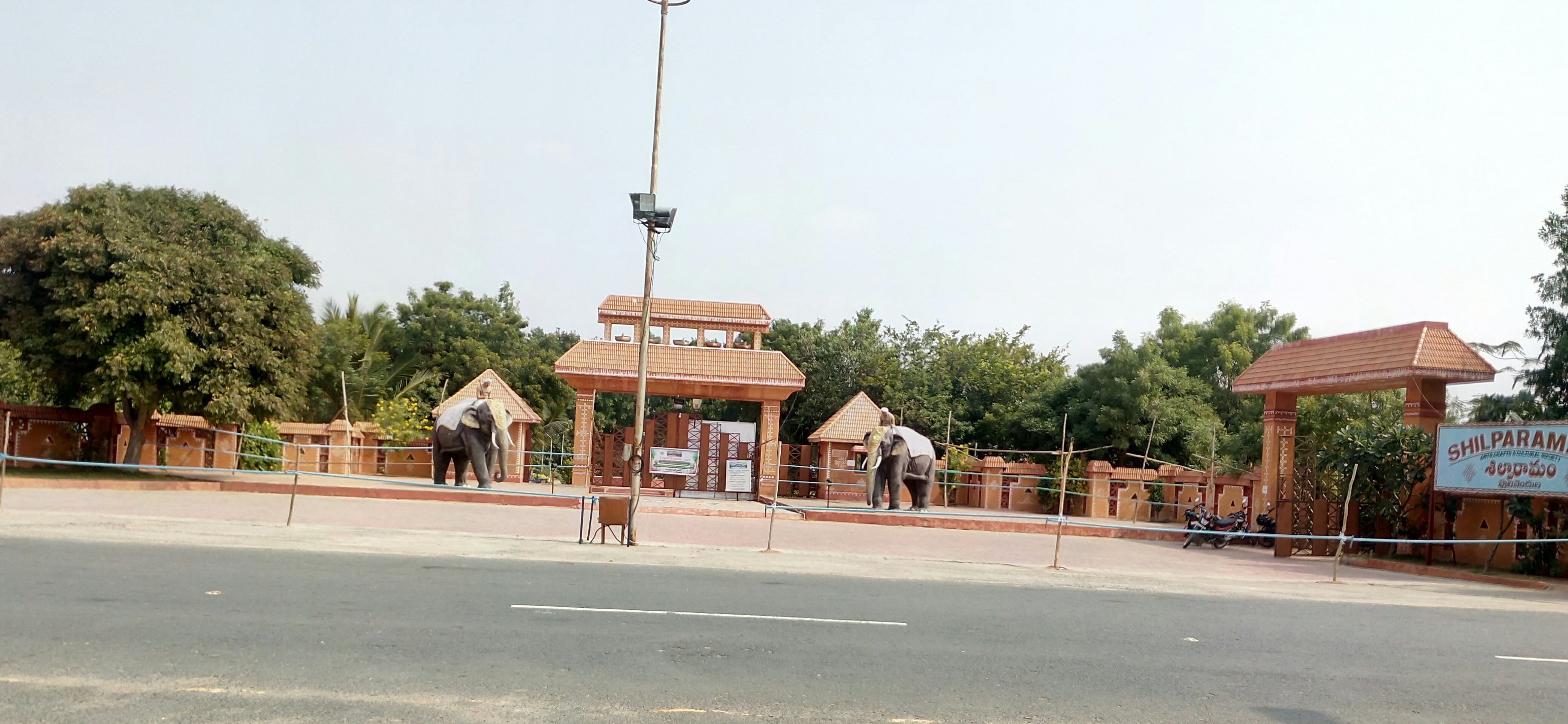 Silparamam Entrance